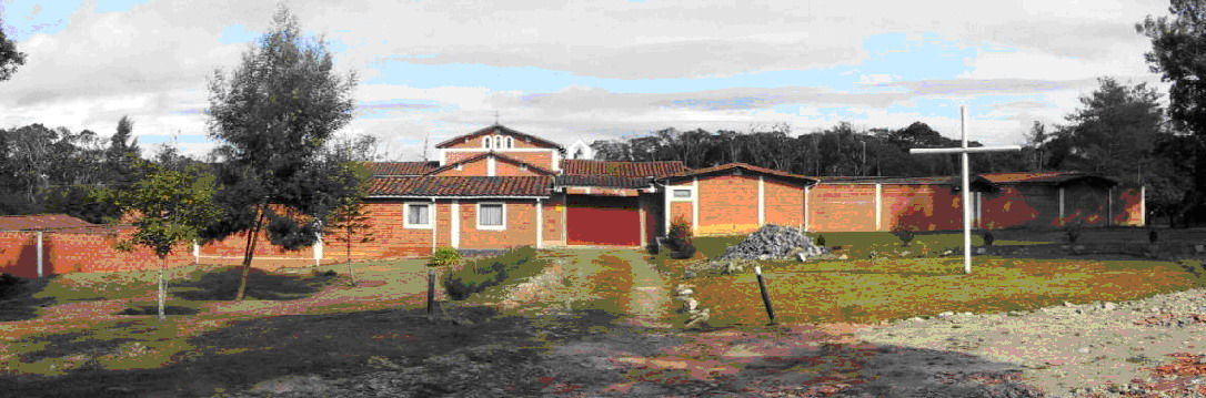 Yermo Camaldulense de Santa Cruz